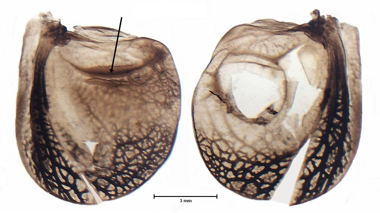 Left an right forewing of an adult male